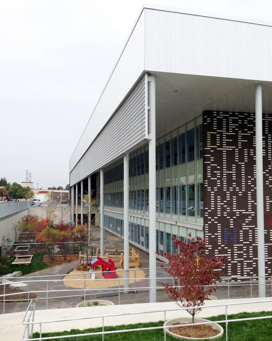 AThe brick facades contains numbers, the ABCs, and half-hidden messages such as "WELCOME!"